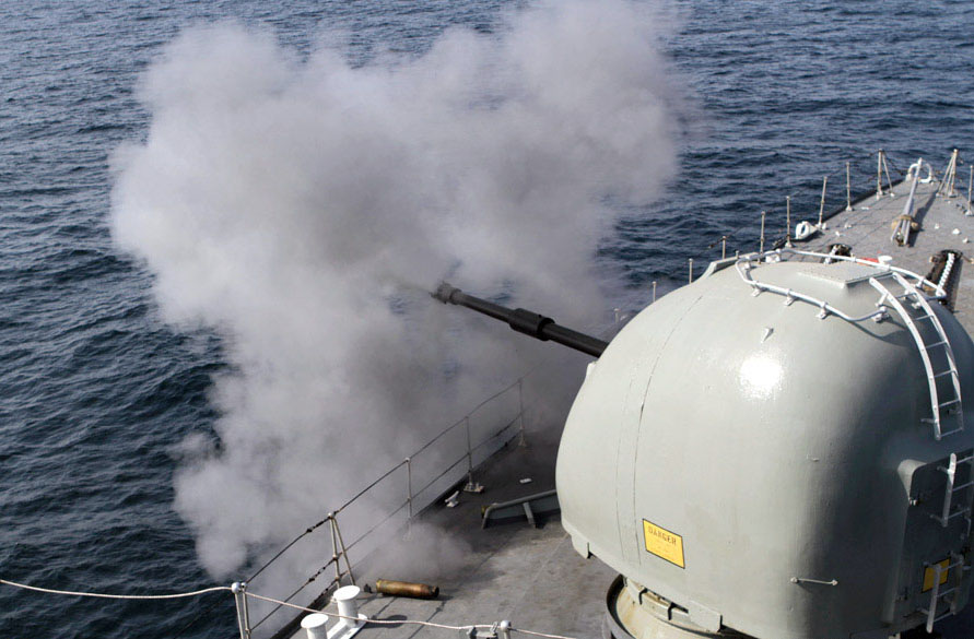 Jamaran frigate in Velayat-90 Naval Exercise.